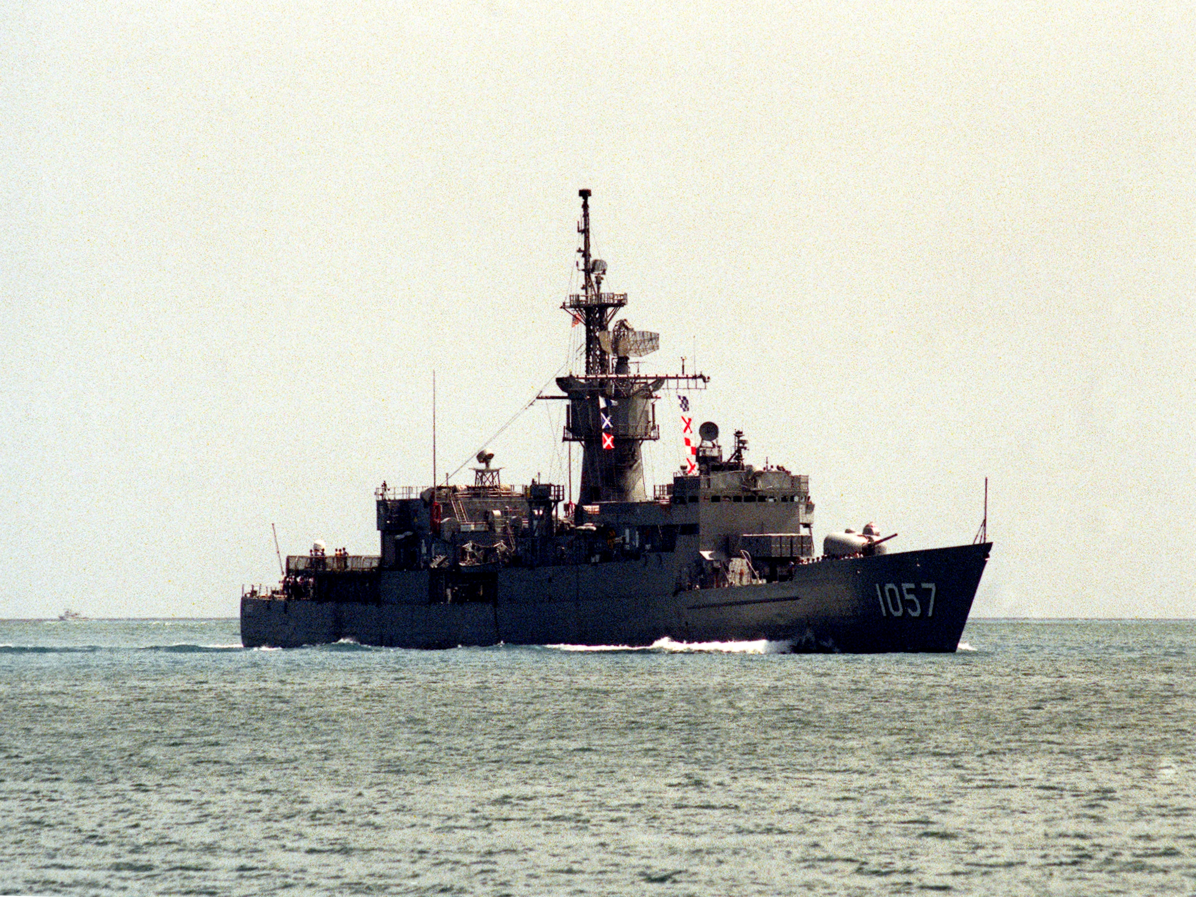 A starboard bow view of the frigate USS Rathburne (FF-1057) as it approaches the channel to enter Pearl Harbor, Hawaii (USA).